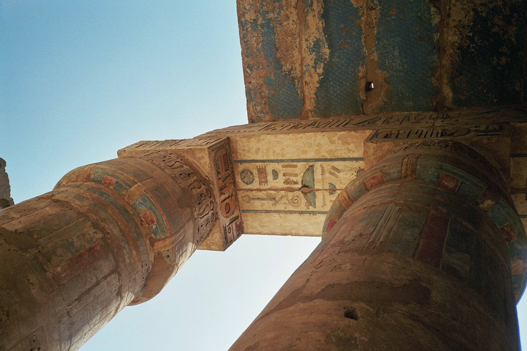 Medinet Haboe, Tempel Ramses III, Luxor, Egypte